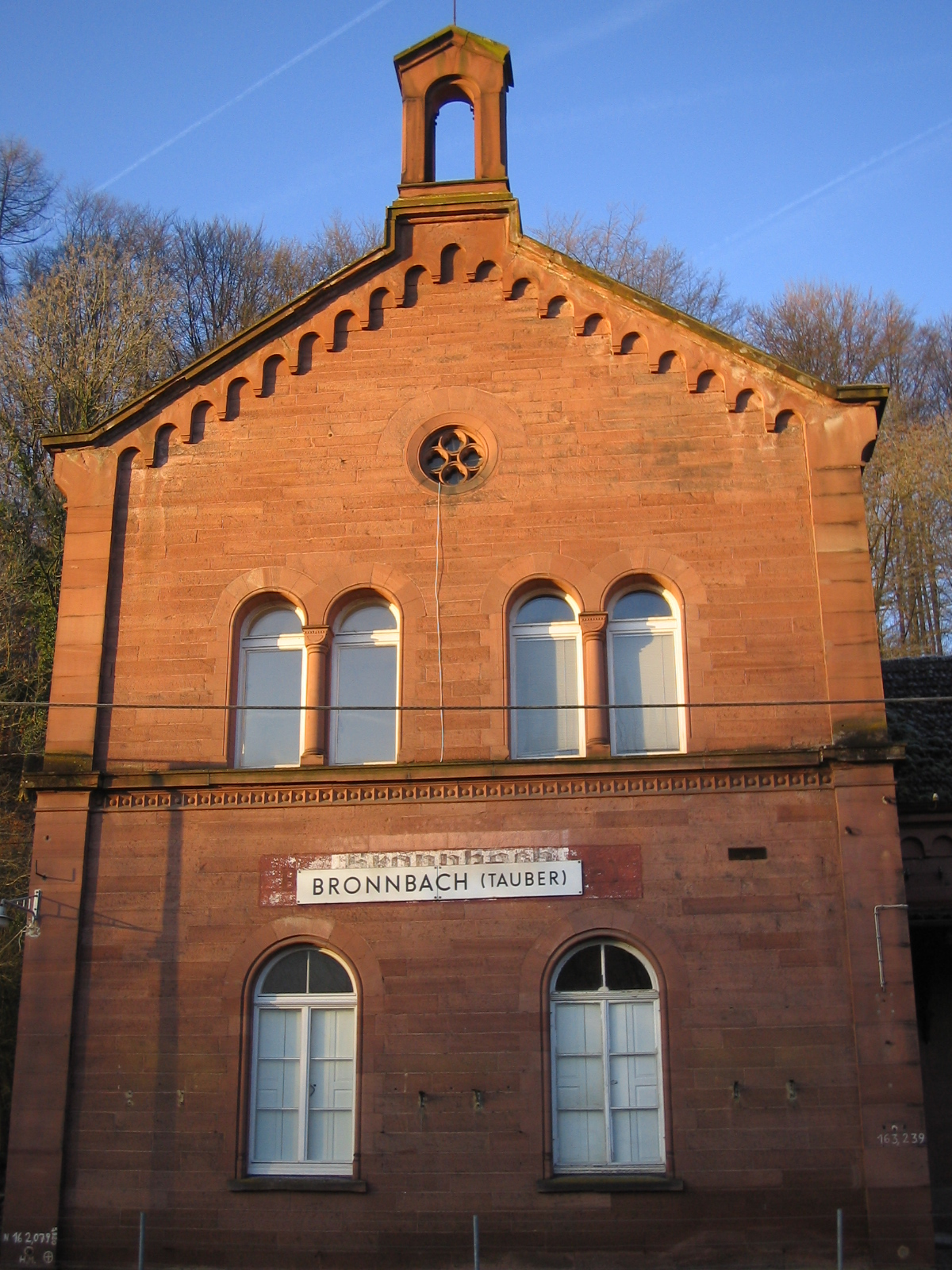 Train station in Bronnbach